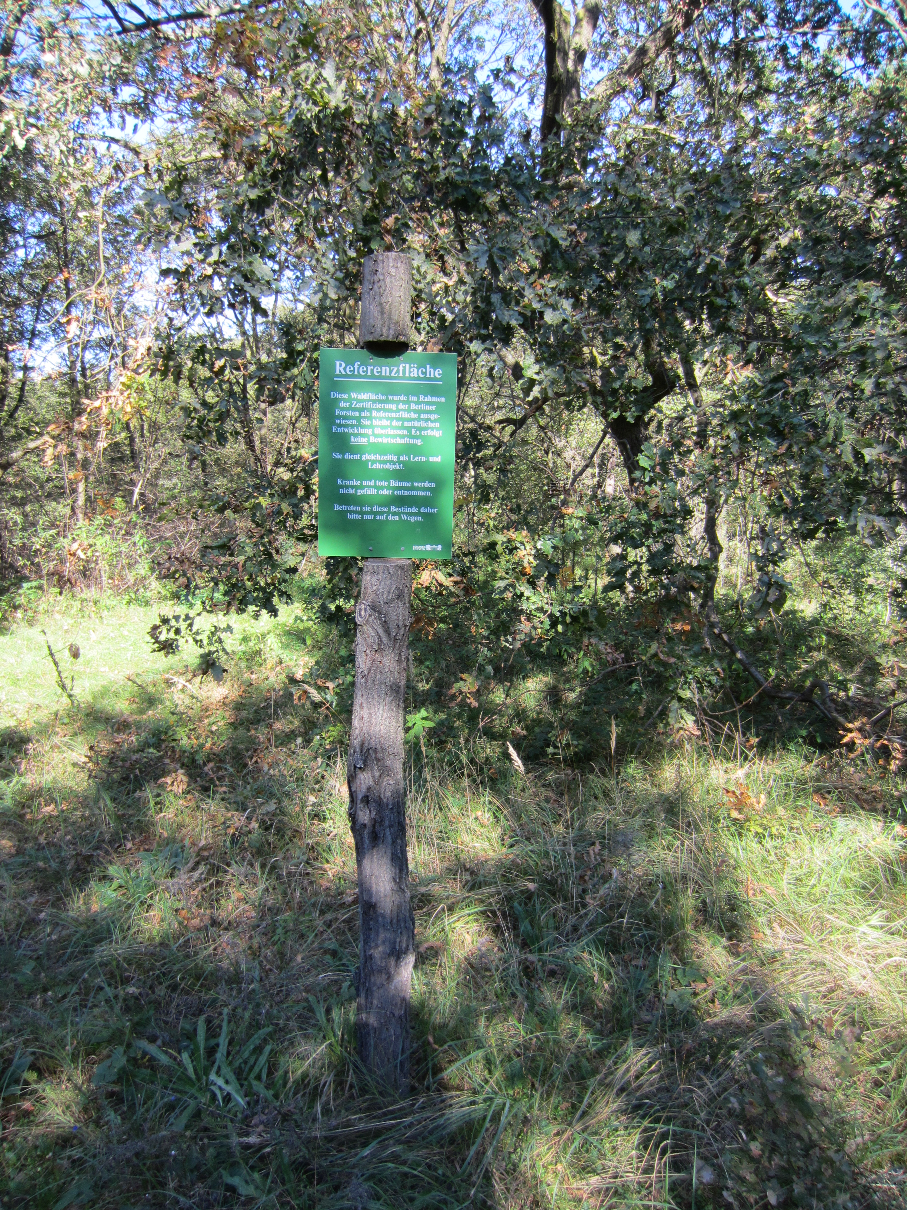 Sign in Königsheide (Berlin) explaining that this is a Place of Reference.